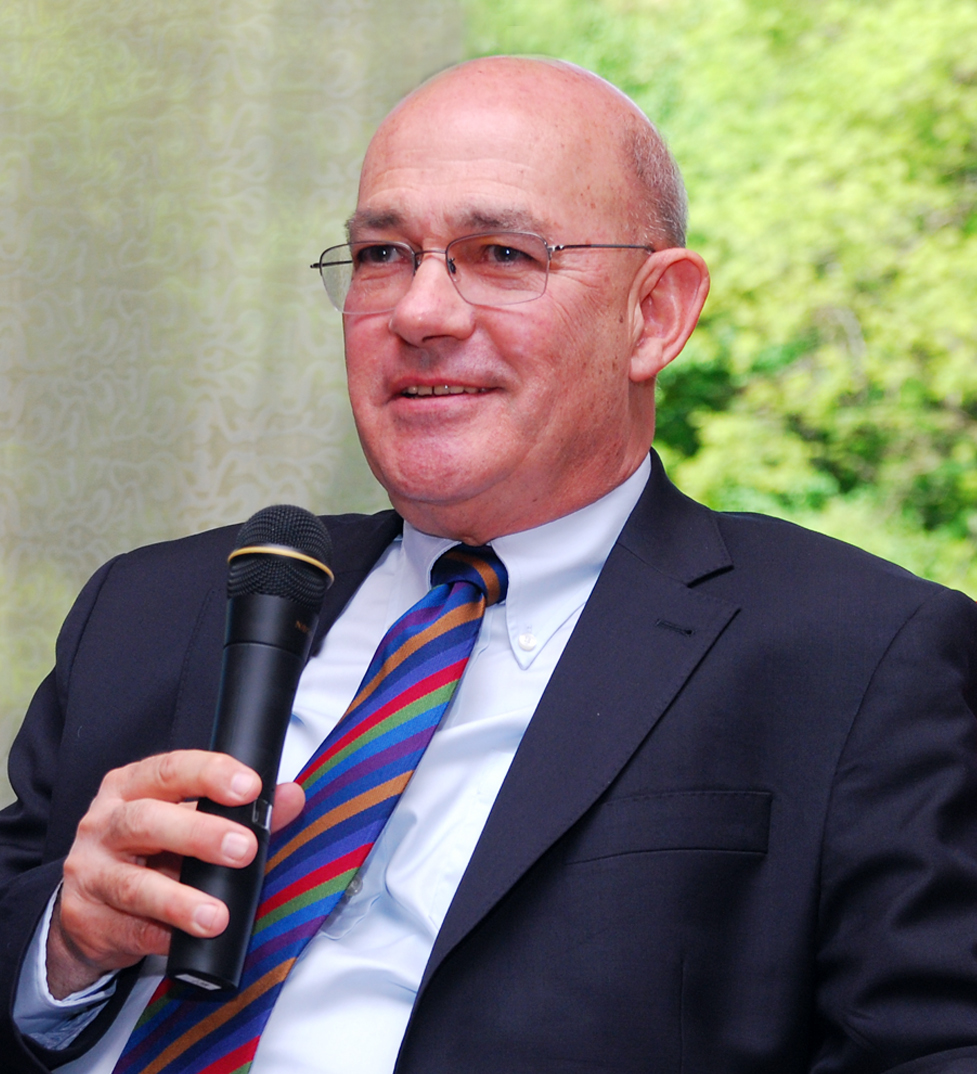 Tom Segev